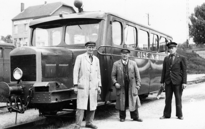 Billard A 50D railcar of CFD Oise, France.